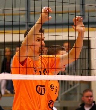 finland volleyball player Juha Mäkikokko.